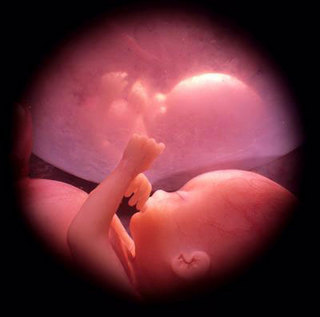 una de las imagenes mas hermosas de la vida del ser humano